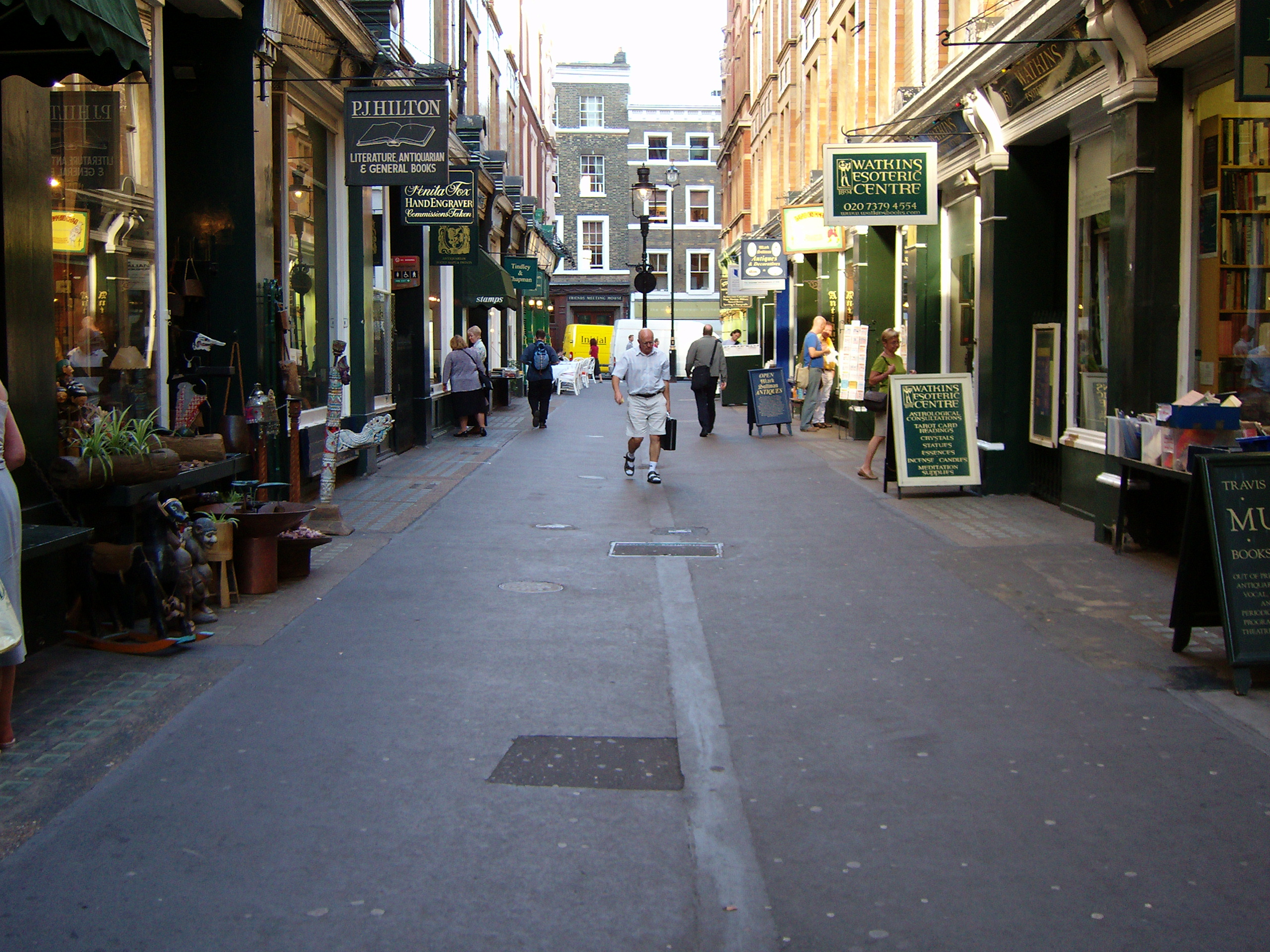 Cecil Court, a street in Central London. (C) Gerry Lynch, 2005.